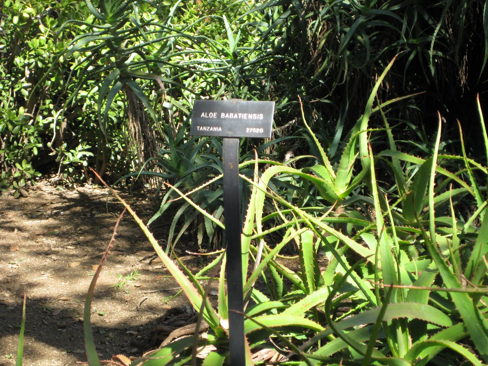 Photographed at Huntington Gardens (Los Angeles, California) in March